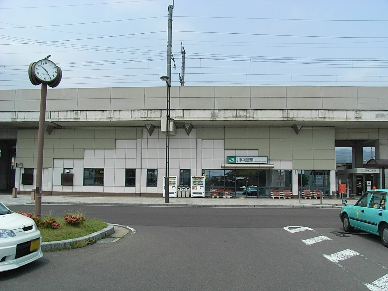 Kawanakajima Station on JR Shin-etsu Line. (1371,Kawanakajimamachi-Kamihigano,Nagano-shi,Nagano-ken,JAPAN)